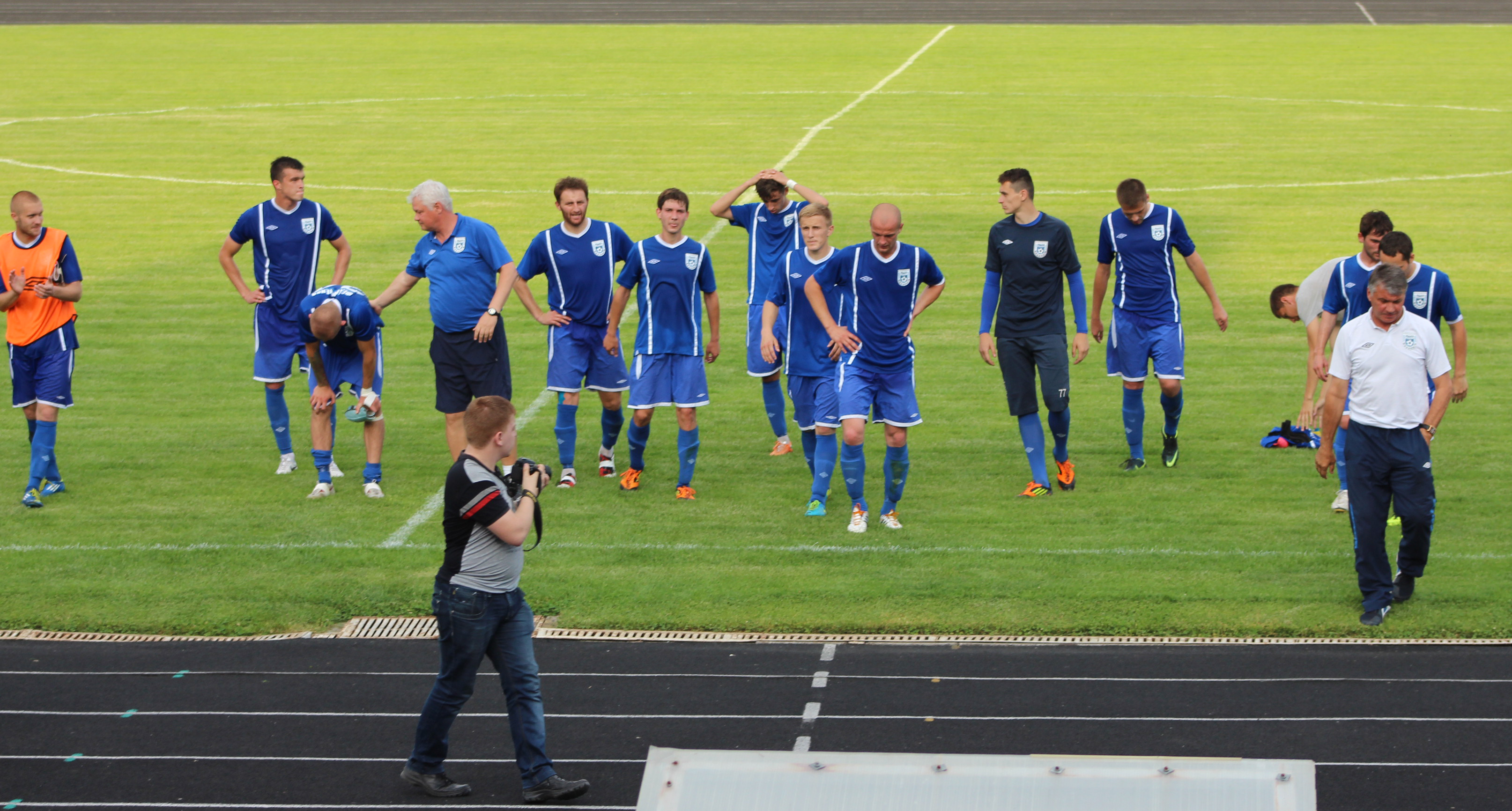 MFC Mykolaiv in 2014